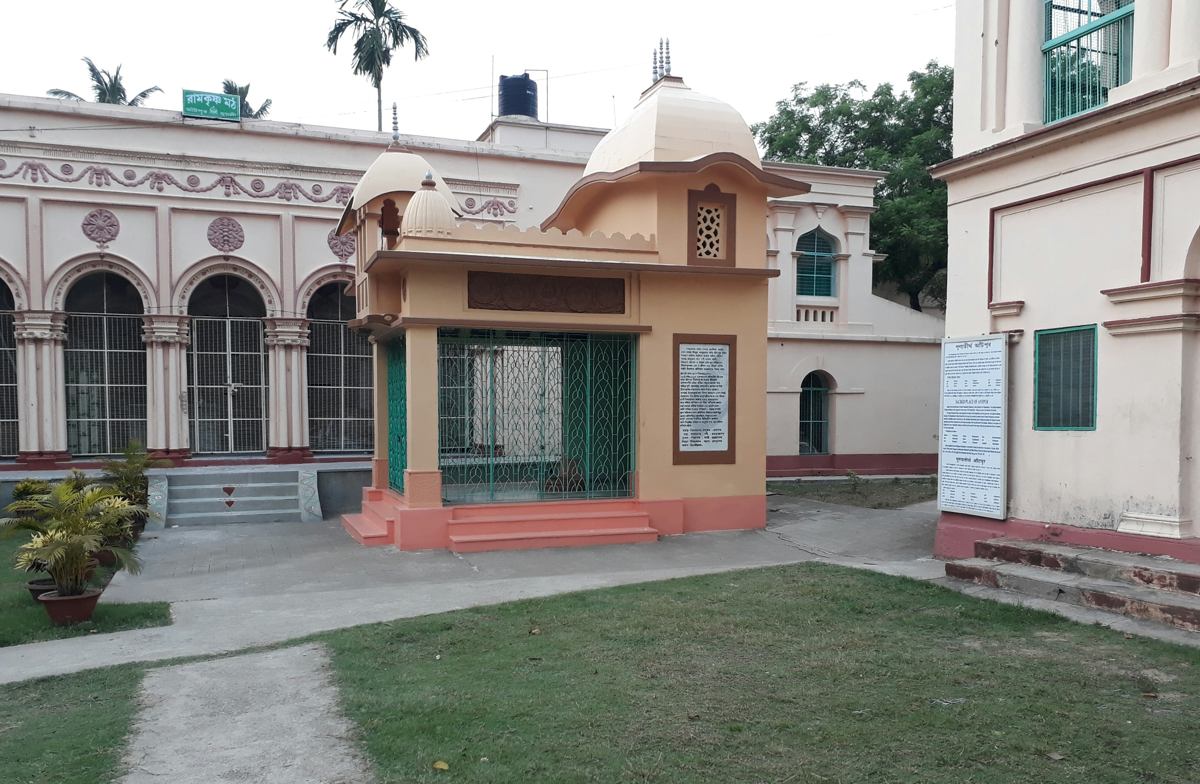 Ramkrishna Premananda Ashrama where Swami Vivekananda and eight other disciples took their vow of ‘sannyasa. Antpur. Hooghly